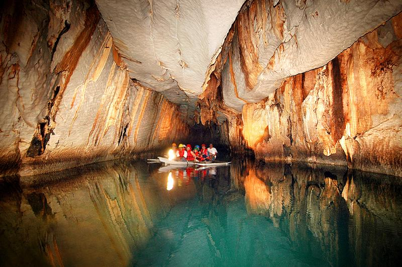 THIS IS THE PUERTO PRINCESA UNDERGROUND RIVER IN THE PHILIPPINES AND ONE OF THE SEVEN WONDERS OF THE WORLD!